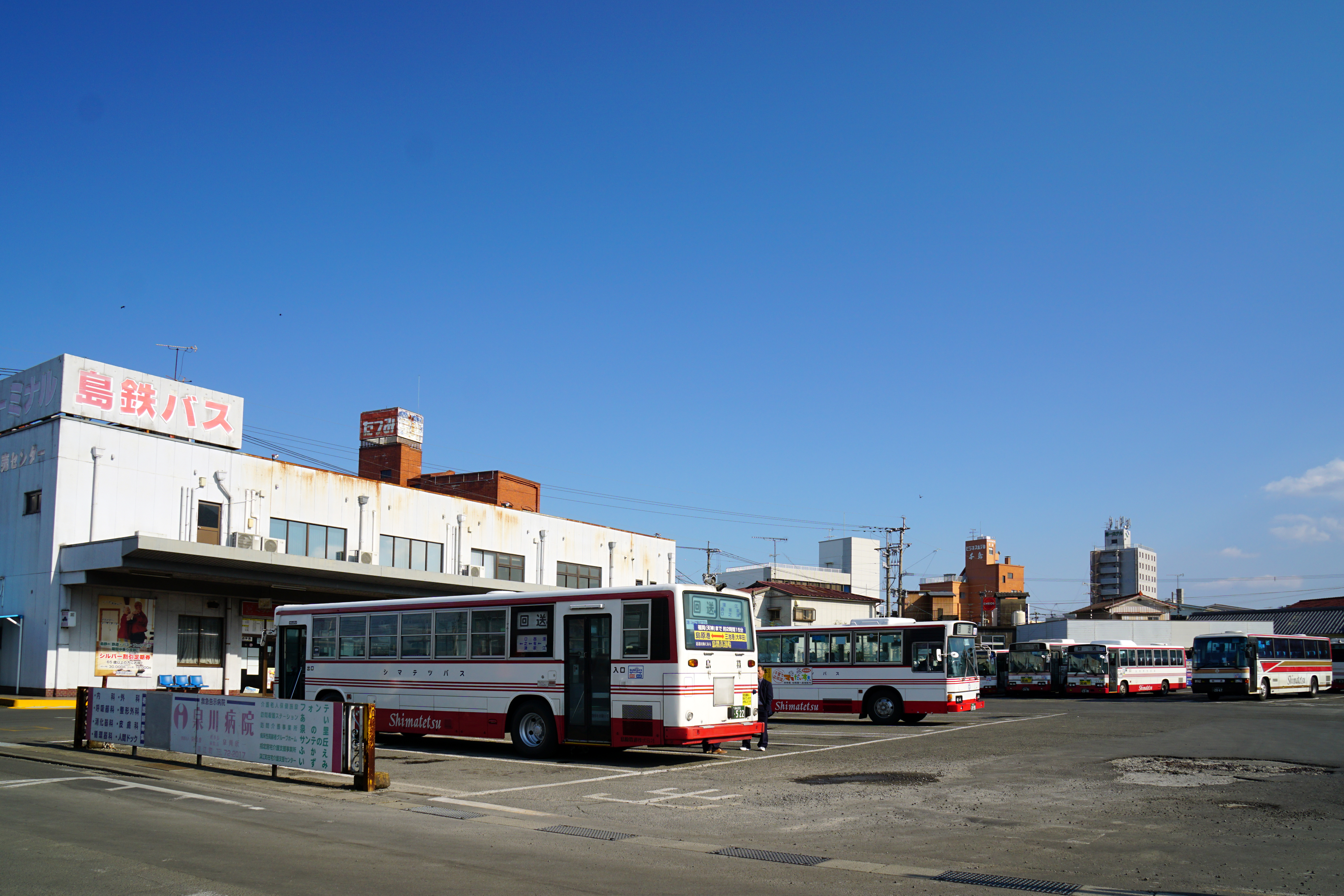 Shimatetsu Bus Terminal in Shimabara, Nagasaki prefecture, Japan.